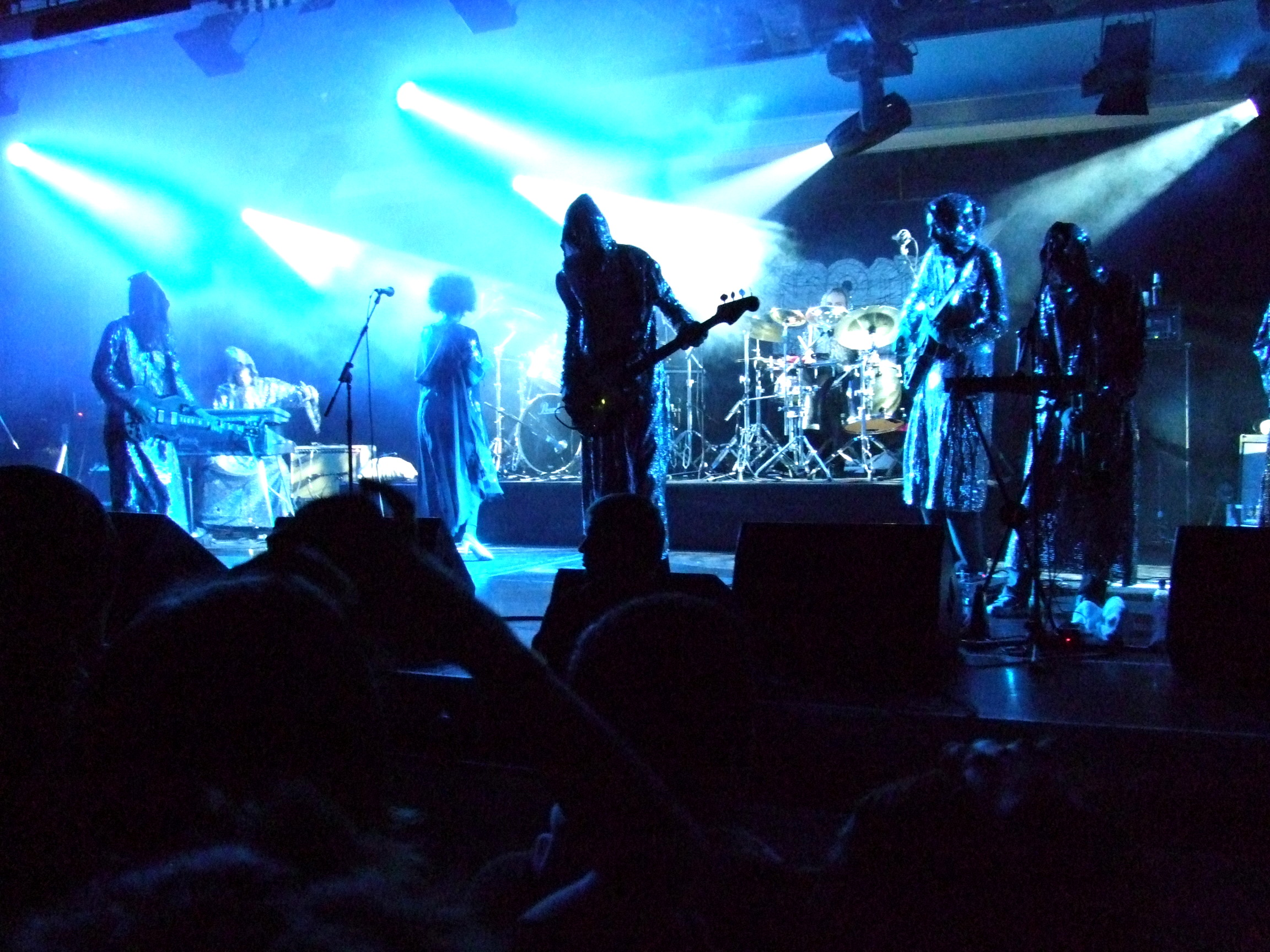 This is Chrome Hoof wearing their characteristic spangley 70s robes, taken at the ATP festival in Minehead on the 7th of December 2007.